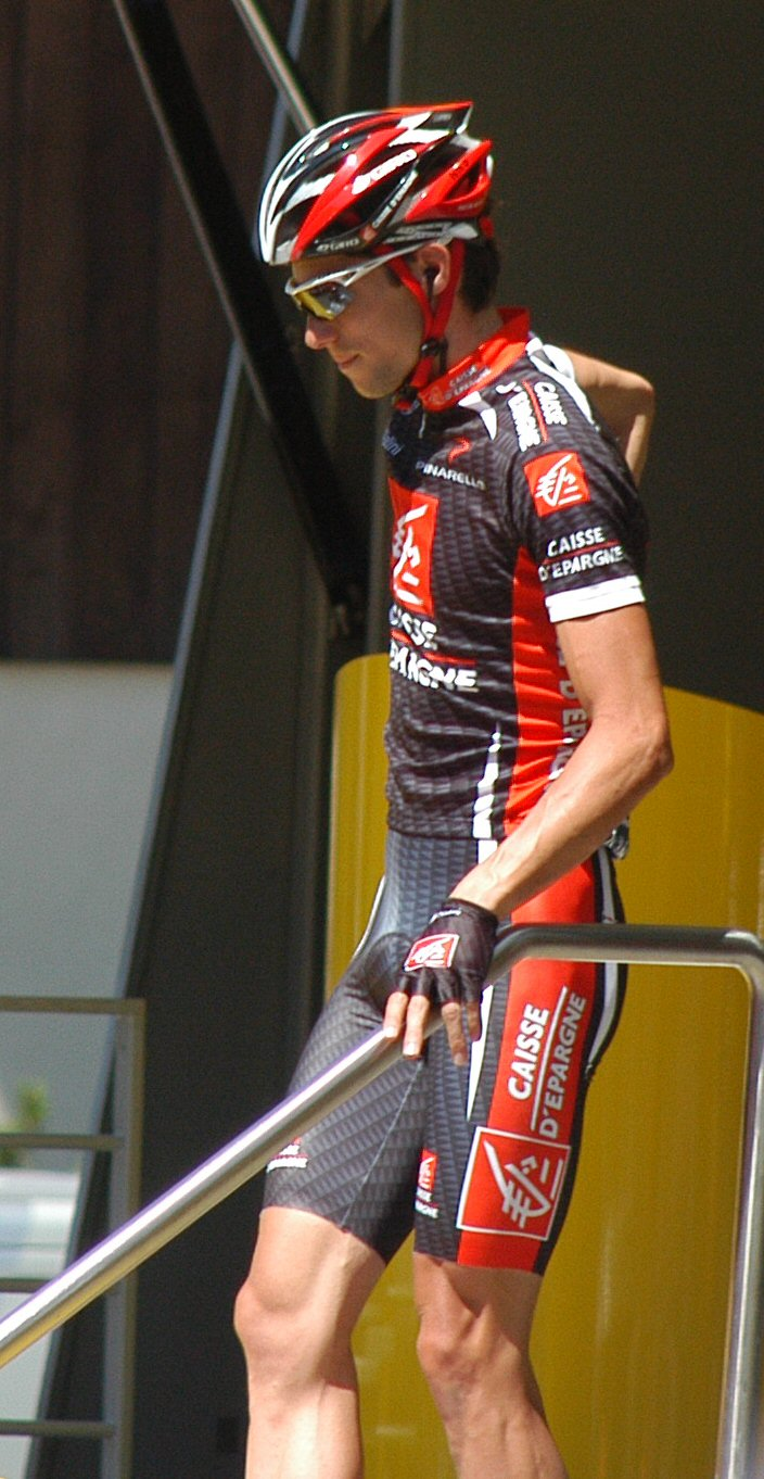 Nicolas Portal at the start of stage 8 in Le Grand Bornand, Tour de France 2007.